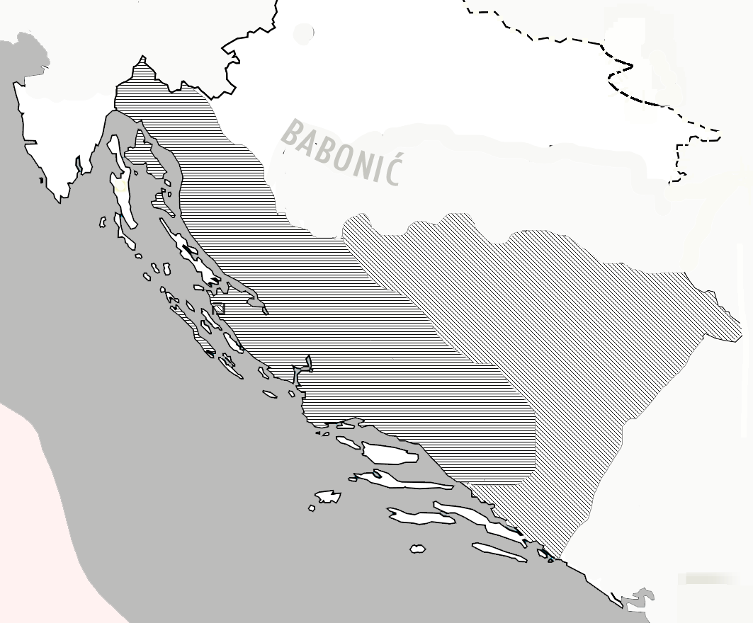 Domain of the magnate Paul Šubić, with conquered areas